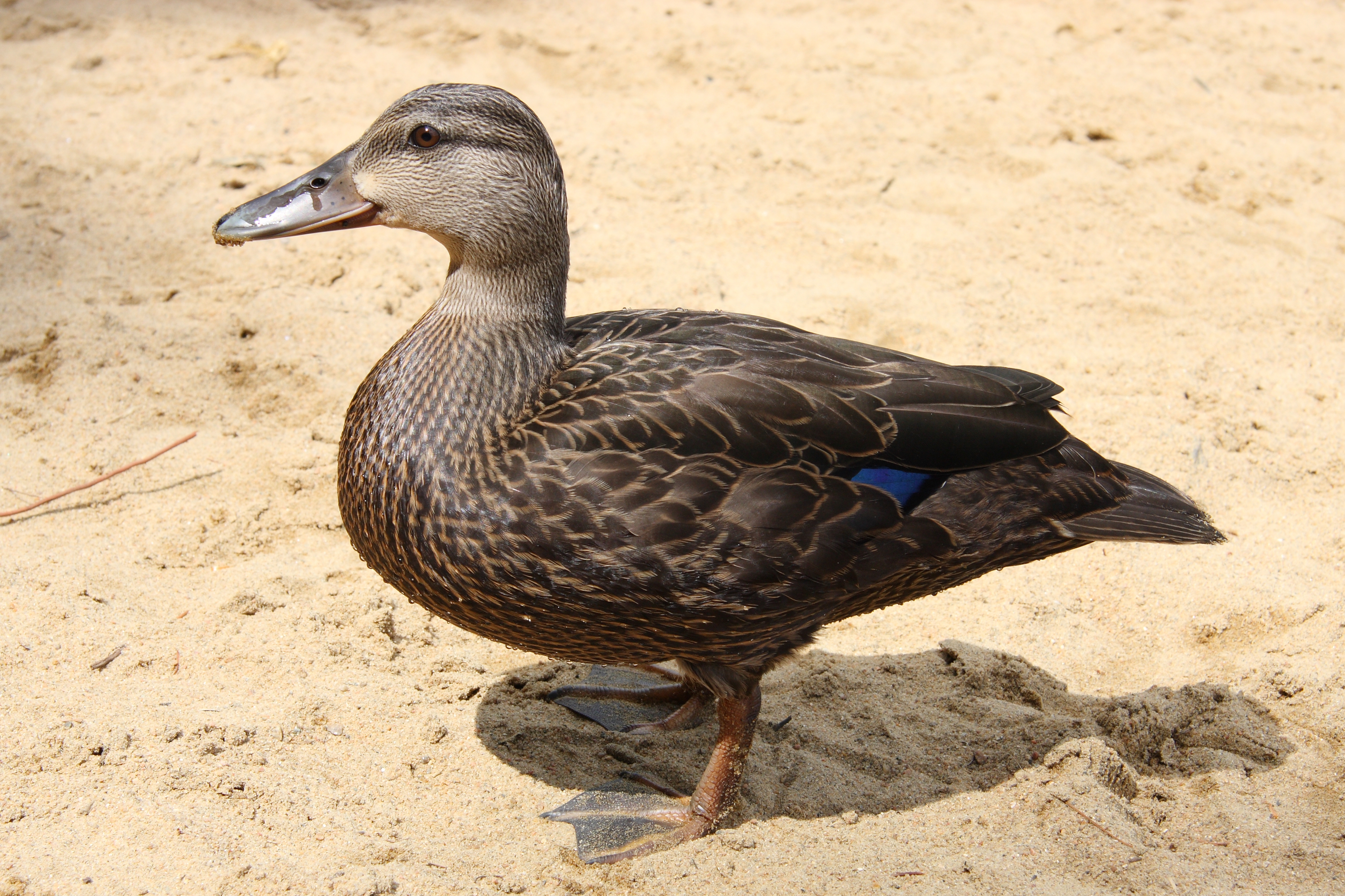 American Black Duck (Anas rubripes), immature, Wapizagonke lake, La Mauricie National Park, Quebec, Canada